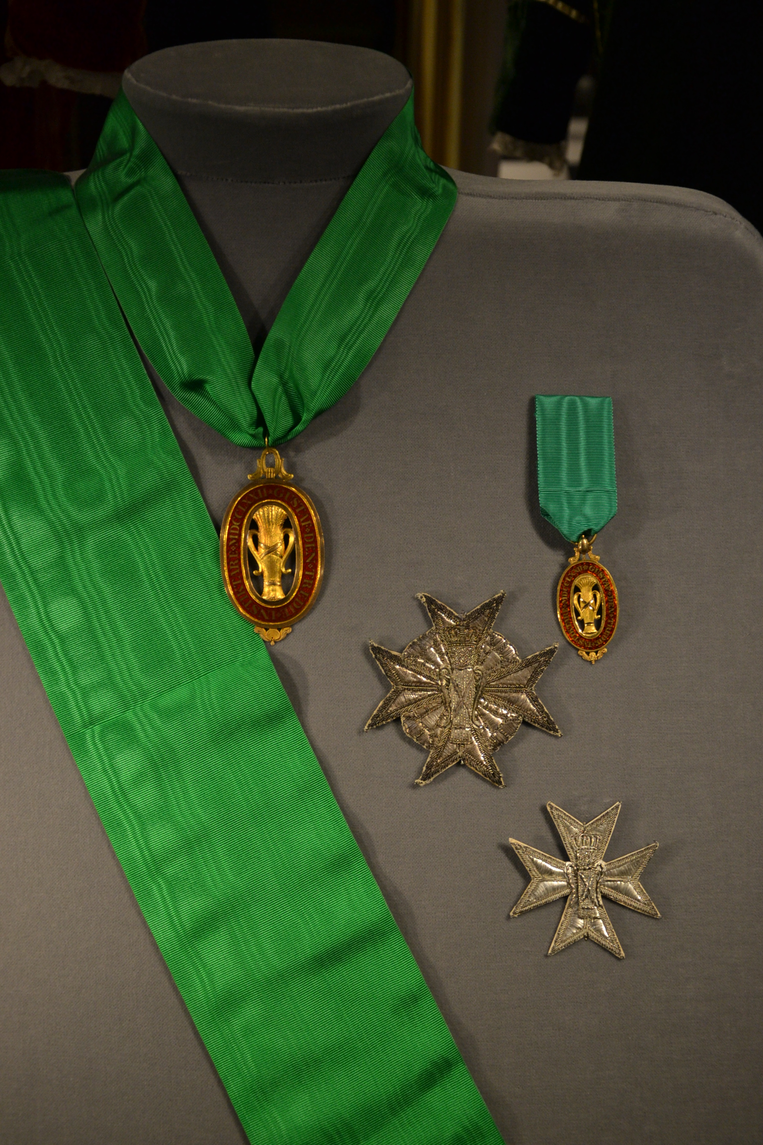 Order of the Vasa, Sweden